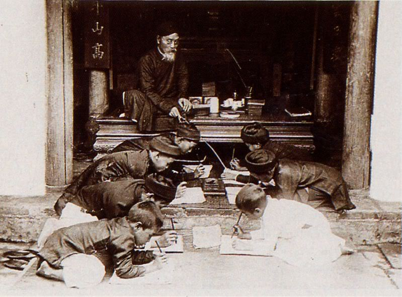 A class before 1945